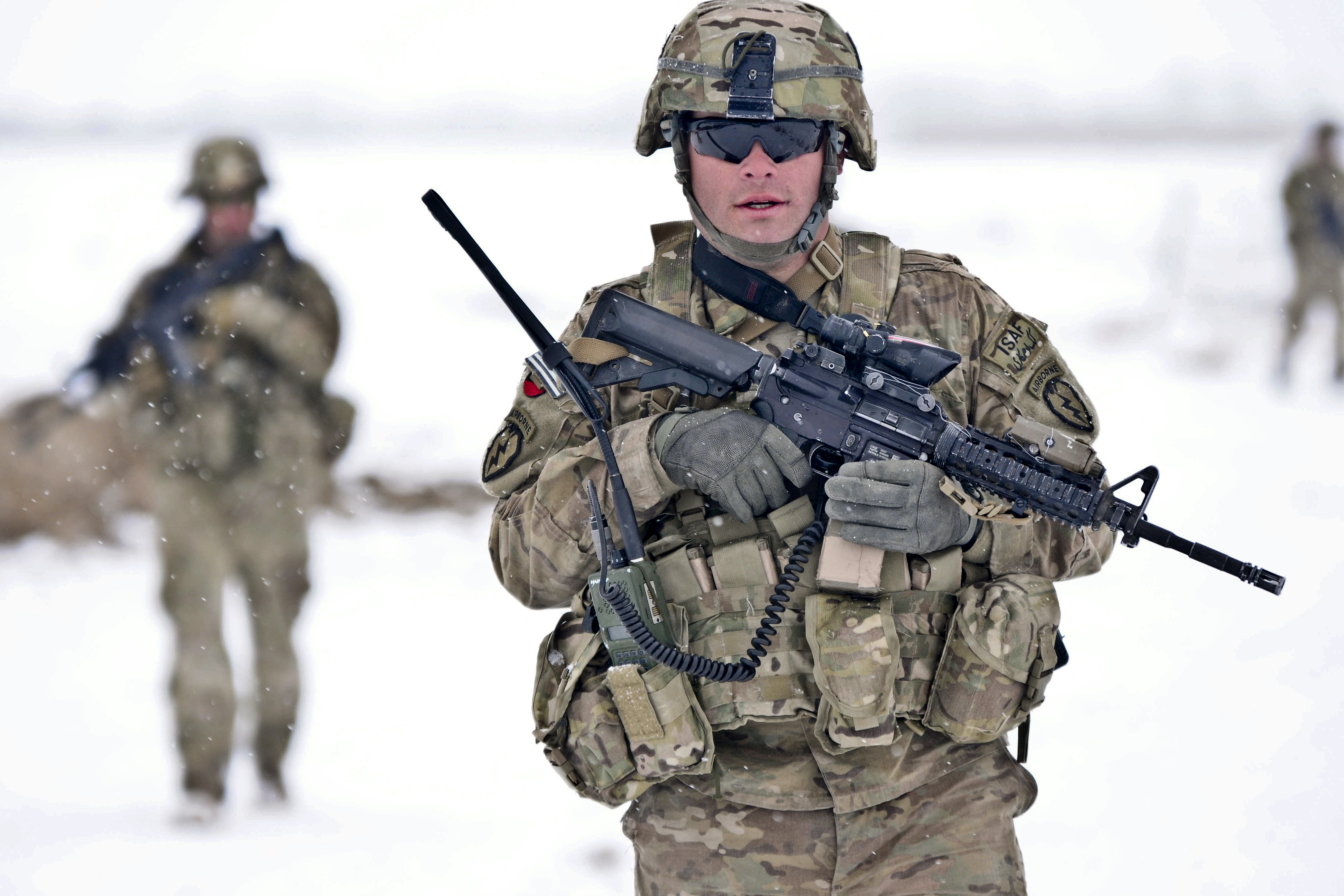 U.S. Army Spc. Robert Irwin conducts a security patrol in Afghanistan's Paktya province, Jan. 30, 2012. Irwin is an infantryman assigned to Dog Company, Task Force Gold Geronimo, part of Spartan Brigade.